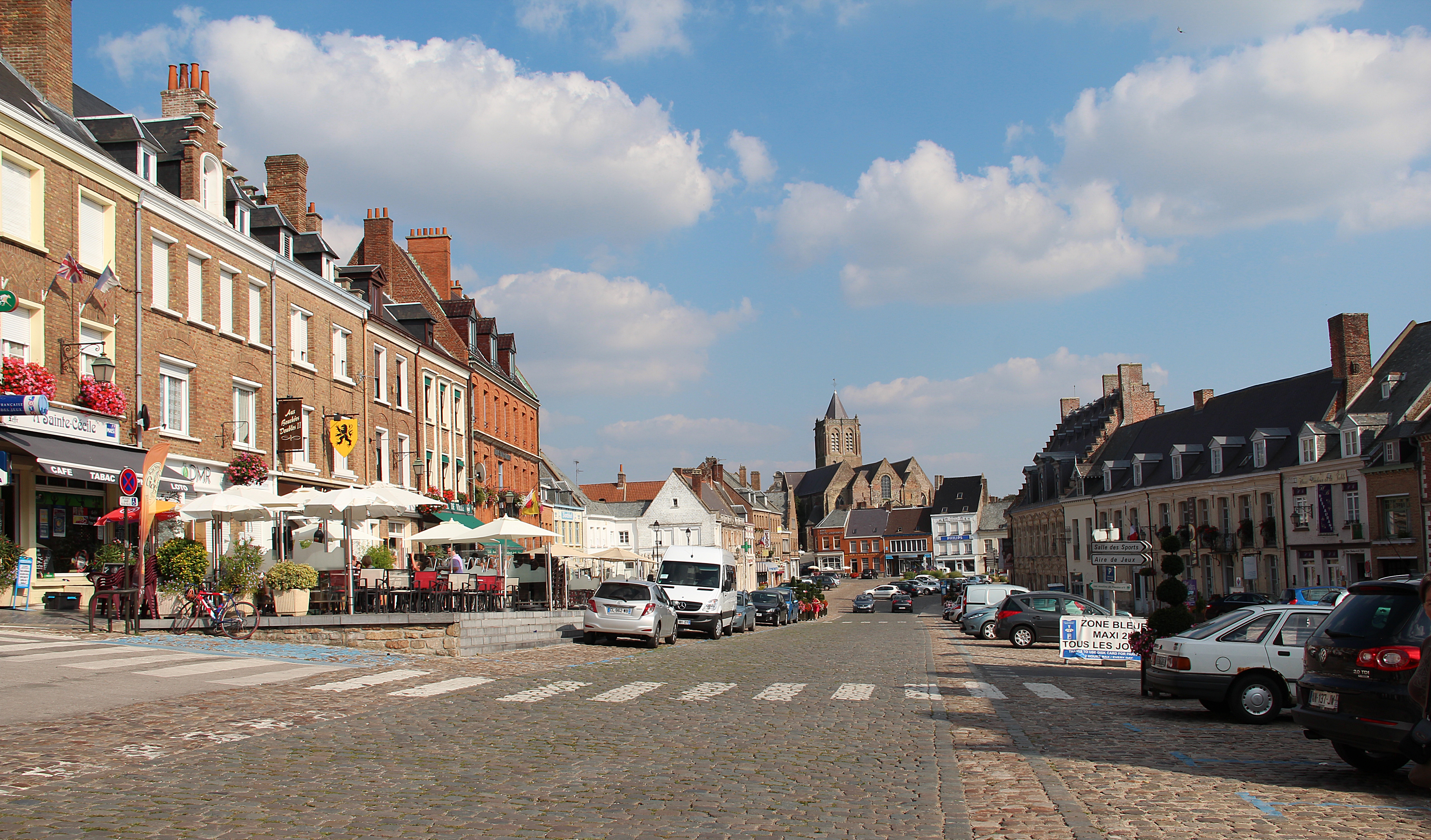 The Grand’Place in Cassel (Nord department, France).